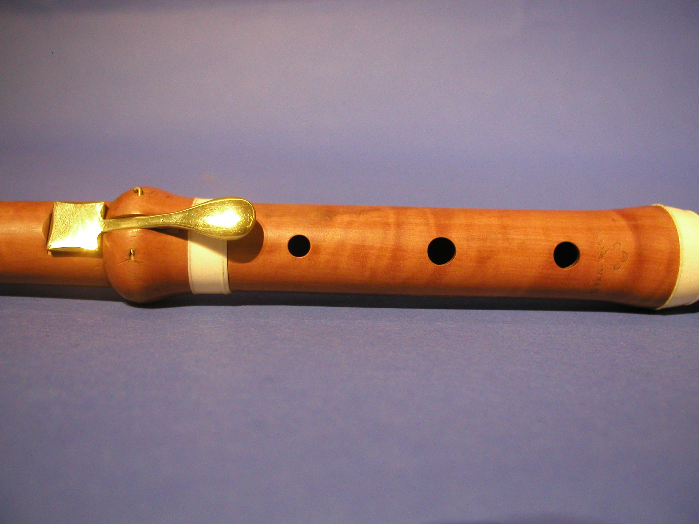 Flute, side blown, boxwood, large oval mouth hole, six open holes, one key missing, four ivory ferrules, ivory end cap 1 flute Goulding and d’Almaine, London, England, 1834 - 1858 boxwood, ivory ferrules, overall length 596 mm stamped ‘(Prince of Wales feathers) D’ALMAINE and CO - LATE - GOULDING and D’ALMAINE - SOHO SQUARE - LONDON’ one brass key replaced 1998.60.183 Castle 280